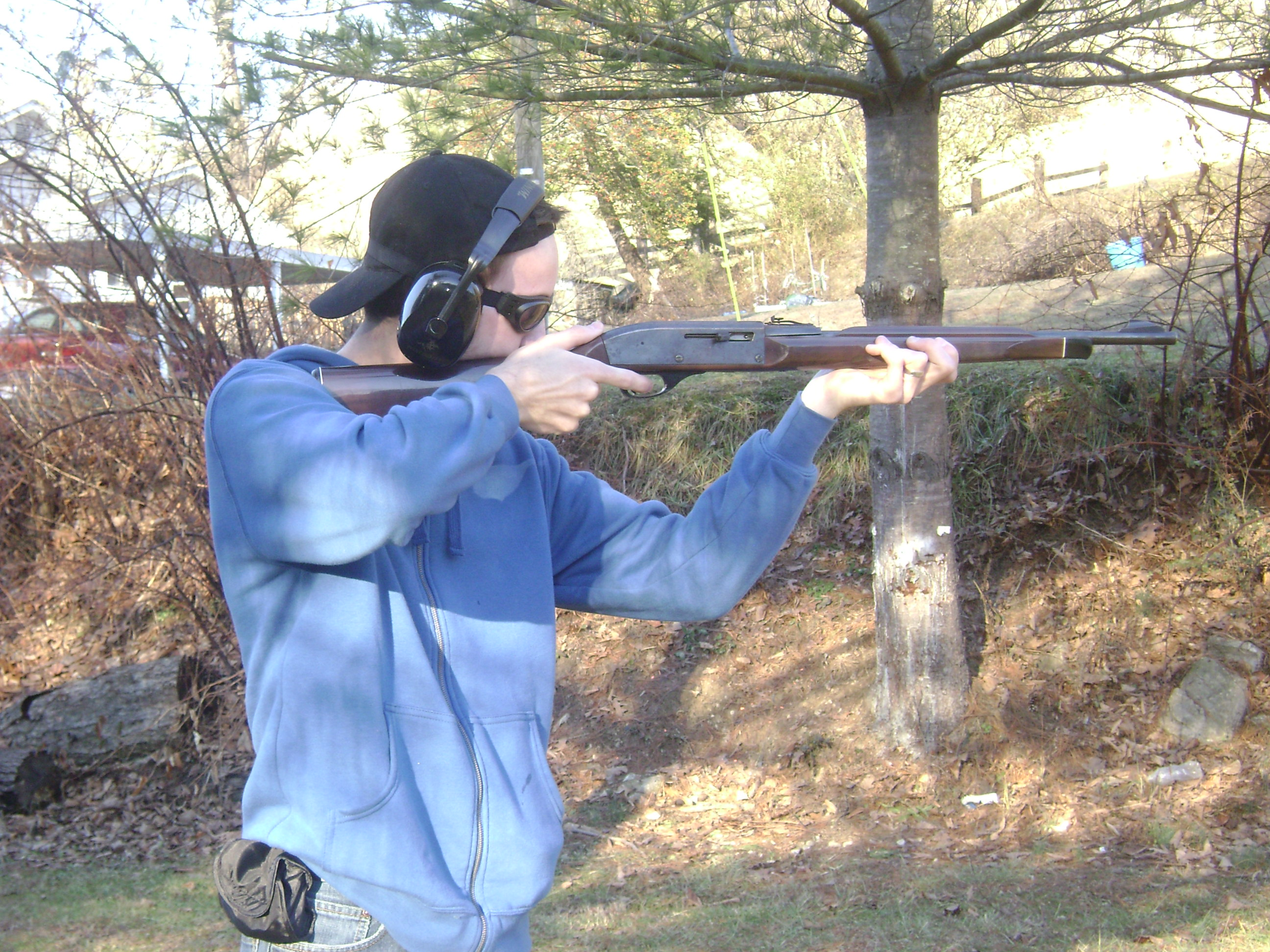 A man fires the Remington Nylon 66 rifle.